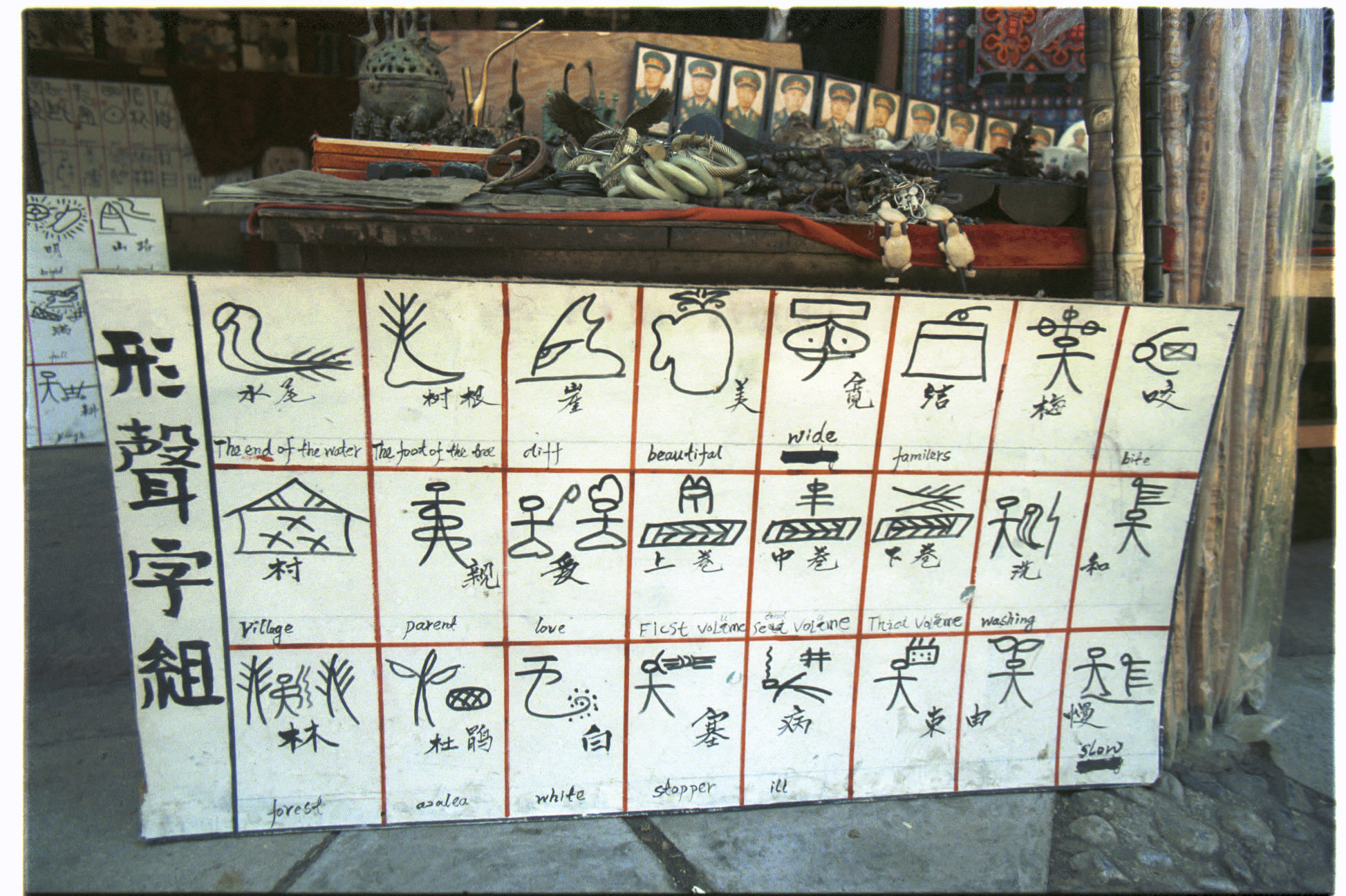 Tompa characters. Lijang, China. The characters is only hieroglyphic characters used today.